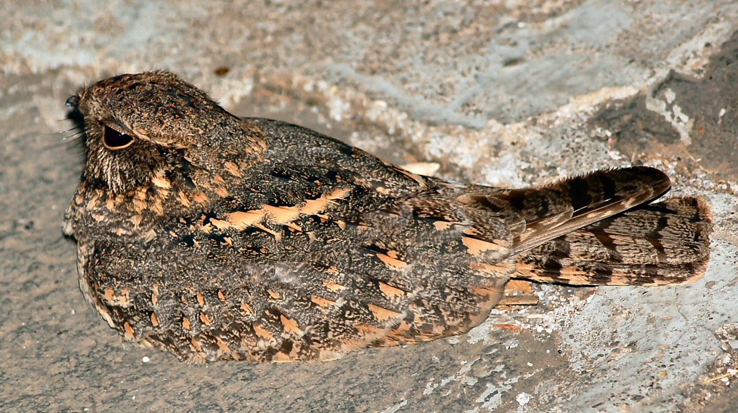 Savannah Nightjar